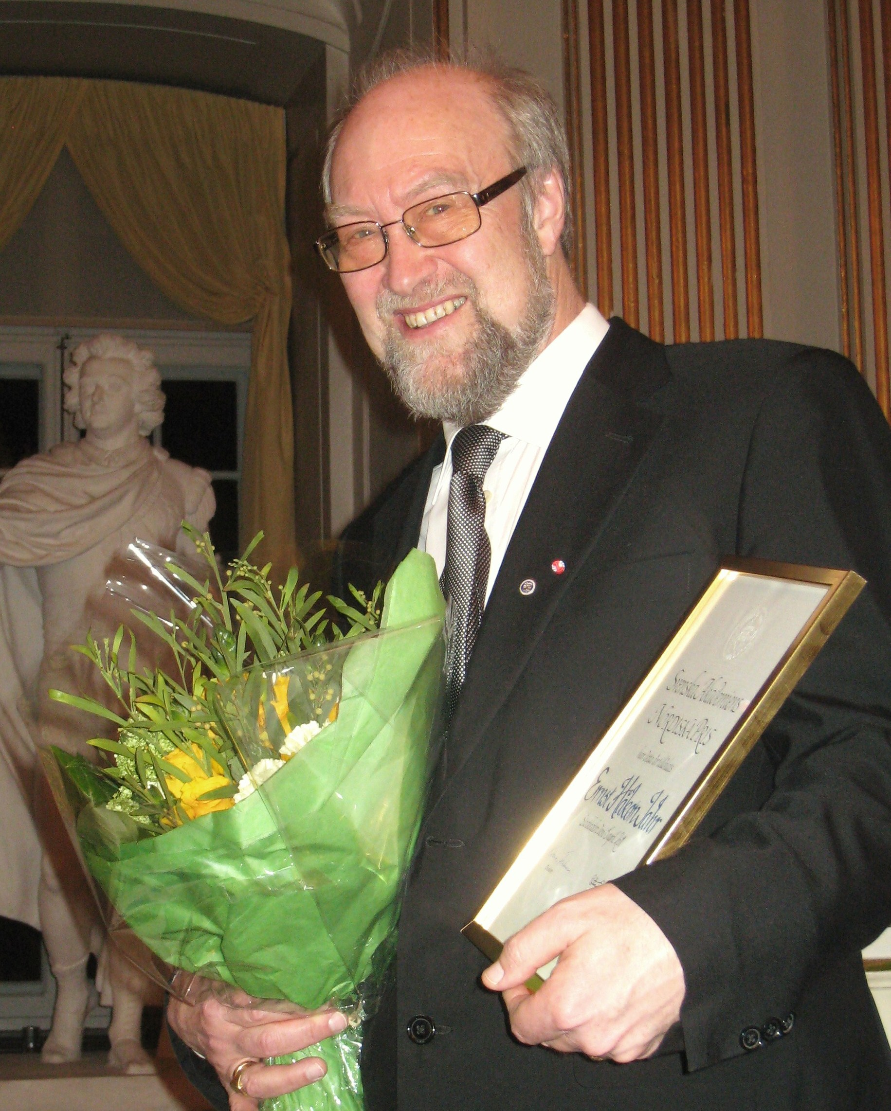 Norwegian philologist Ernst Håkon Jahr after an award ceremony at Börssalen, Swedish Academy in Stockholm, April 5th 2011 Norske språkvetaren Ernst Håkon Jahr, efter utdelningen av Svenska Akademiens nordiska pris i Börssalen, 5 april 2011